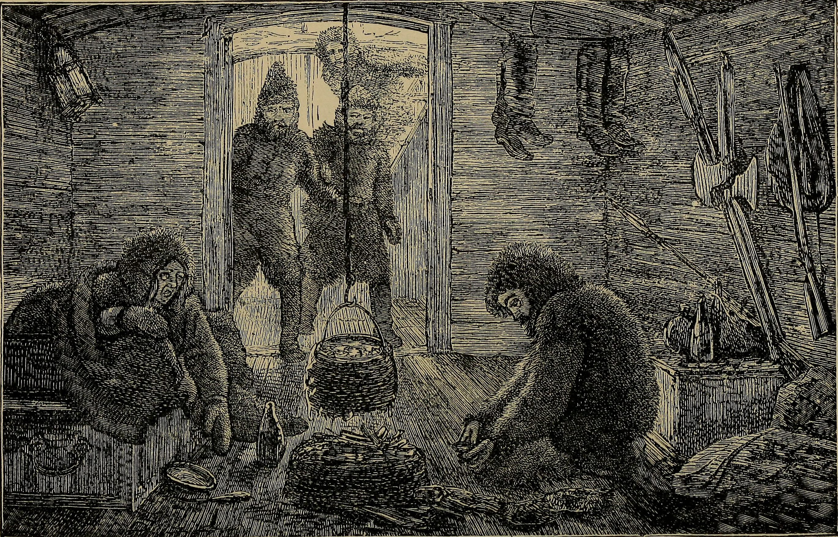 An illustration to the story "Frozen to Death" from The Water World, Chicago, 1884. "On entering the principal cabin, the first object that attracted their attention was the dead body of a female, reclining on a bed in an attitude of deep interest and attention. ... Seated upon the floor was the corpse of an apparently young man, holding a steel in one hand and a flint in the other, as if in the act of striking fire upon some tinder which lay beside him."